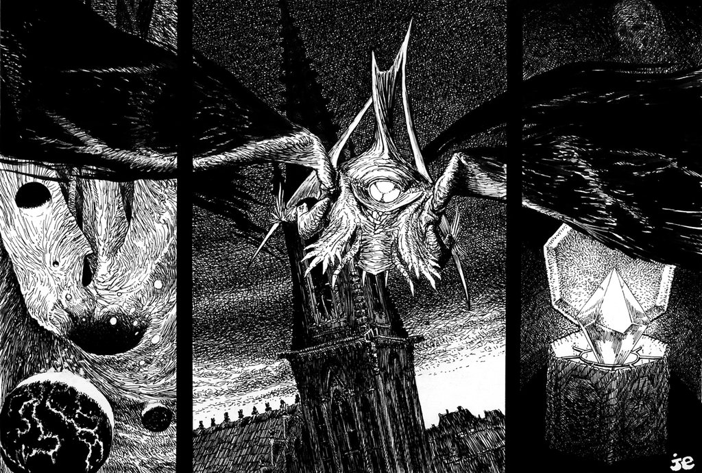 Ernő Juhász's artwork inspired by H. P. Lovecraft's story The Haunter of the Dark.